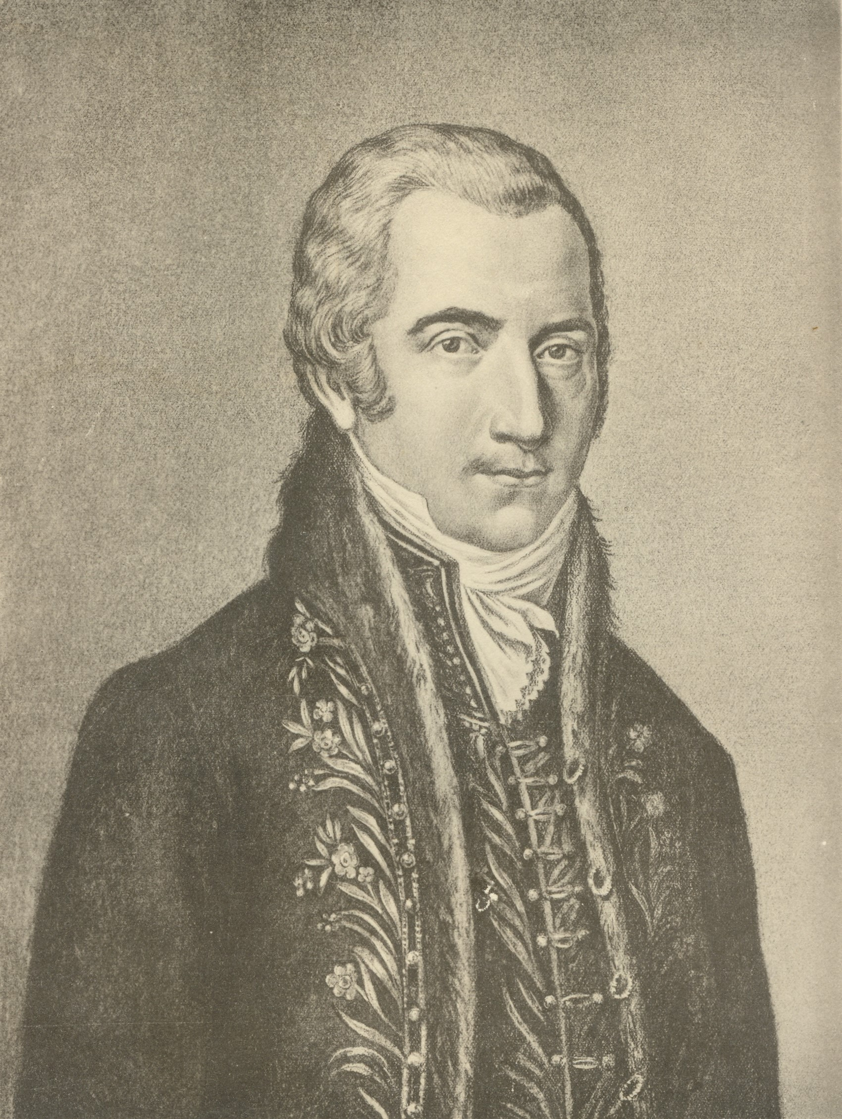 Portrait of Uroš Nestorović (1765-1825), Serbian philosopher, lawyer, pedagogue and founder of the first Serbian Teacher School. Srpski (latinica): Portret Uroša Nestorovića (1765-1825), filozofa, pravnika, pedagoga i osnivača prve Srpske učiteljske škole.